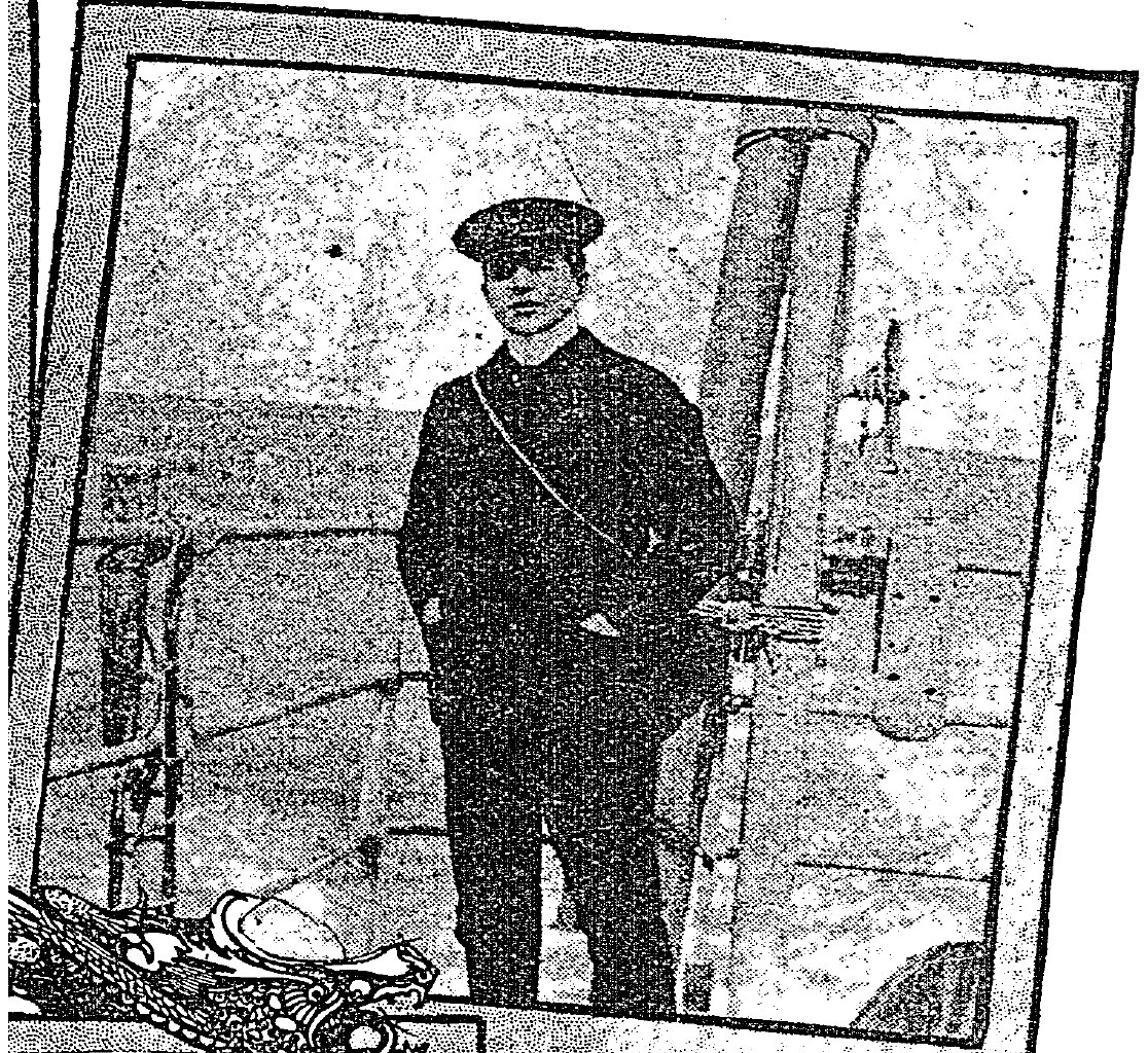 Photo/lithograph of Frits V. Holm from the report of his arrival to the US with a replica of the Nestorian Stele that he had made in Xi'an. The original caption: "Fritz von Holm who obtained the replica". As a Google Books search shows, "Fritz von Holm" was a common (mis) spelling at the time, although, according to Keevak (2008), this is incorrect, since he was really Frits Vilhelm Holm.